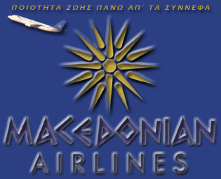 This is the logo of the Makedonian Airlines of Greece [Codes SX / MCS]. - OFFICIAL SITE OF THE MAKEDONIAN AIRWAYS: (Greek language)